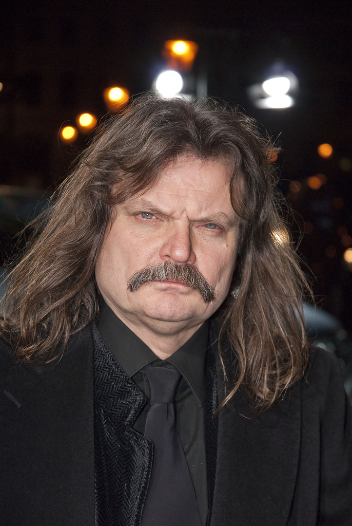 Leslie Mandoki, German, musician and producer Volkswagen People’s Night 2008